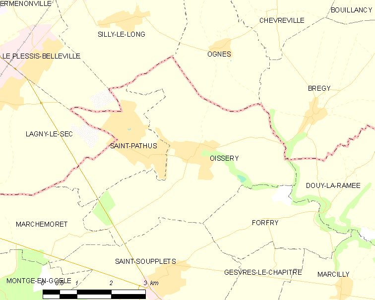 Map of French municipality Oissery